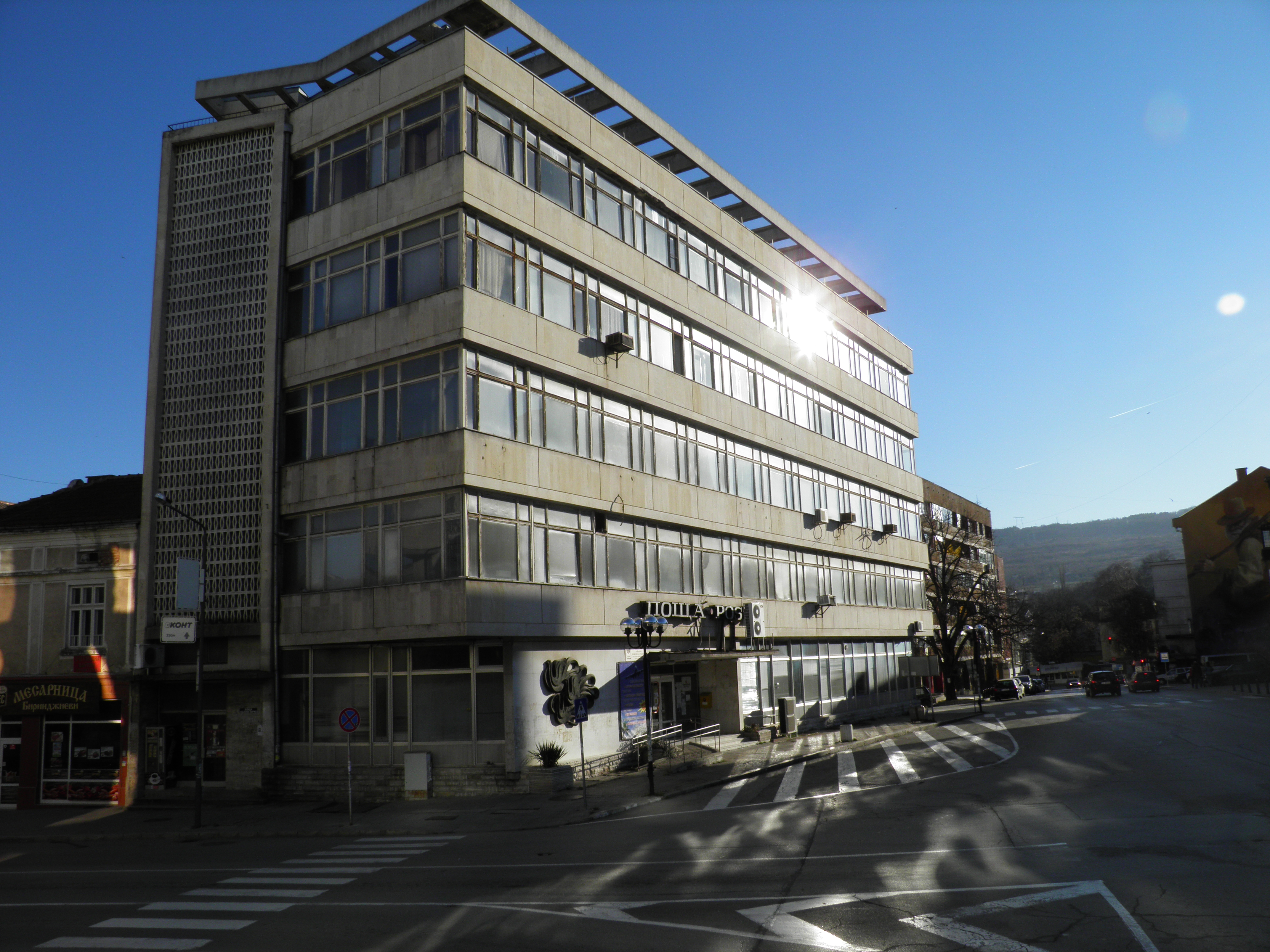 Post office in Gorna Oryahovitsa